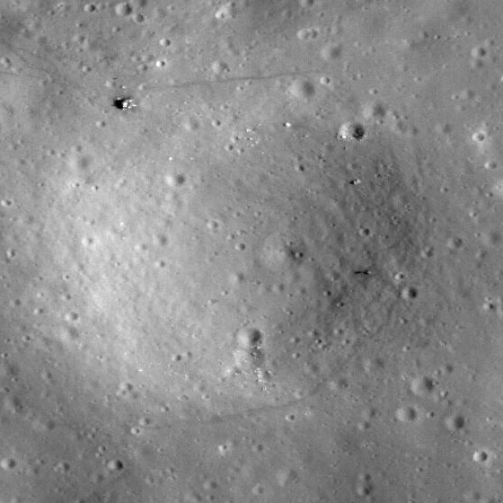 Surveyor crater, Mare Cognitum, on the moon. The descent stage of the Apollo 12 Lunar Module Intrepid is located in the upper left, and the Surveyor 3 lander is located within the crater near the east rim. The distinct crater on the northeast rim is called Block crater.